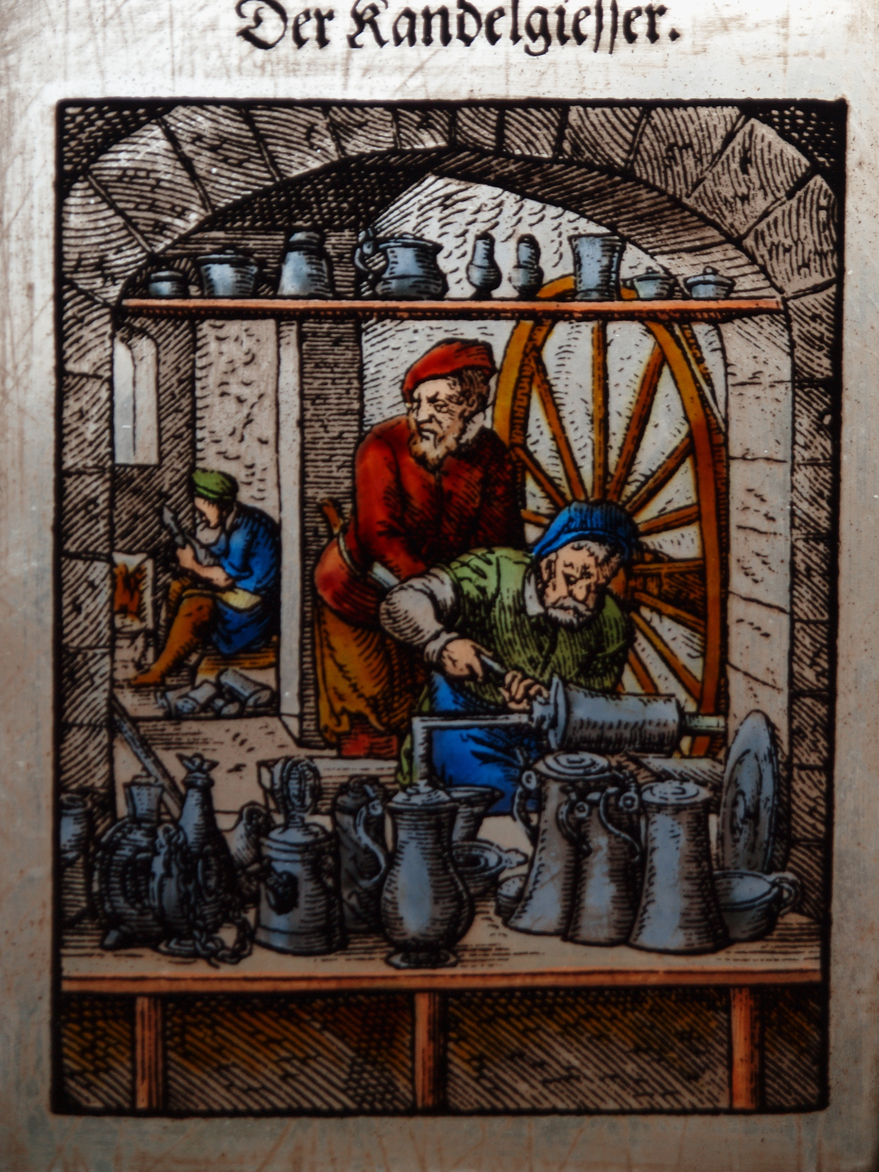 Zinngießer - Kandelgießer Glasfenster